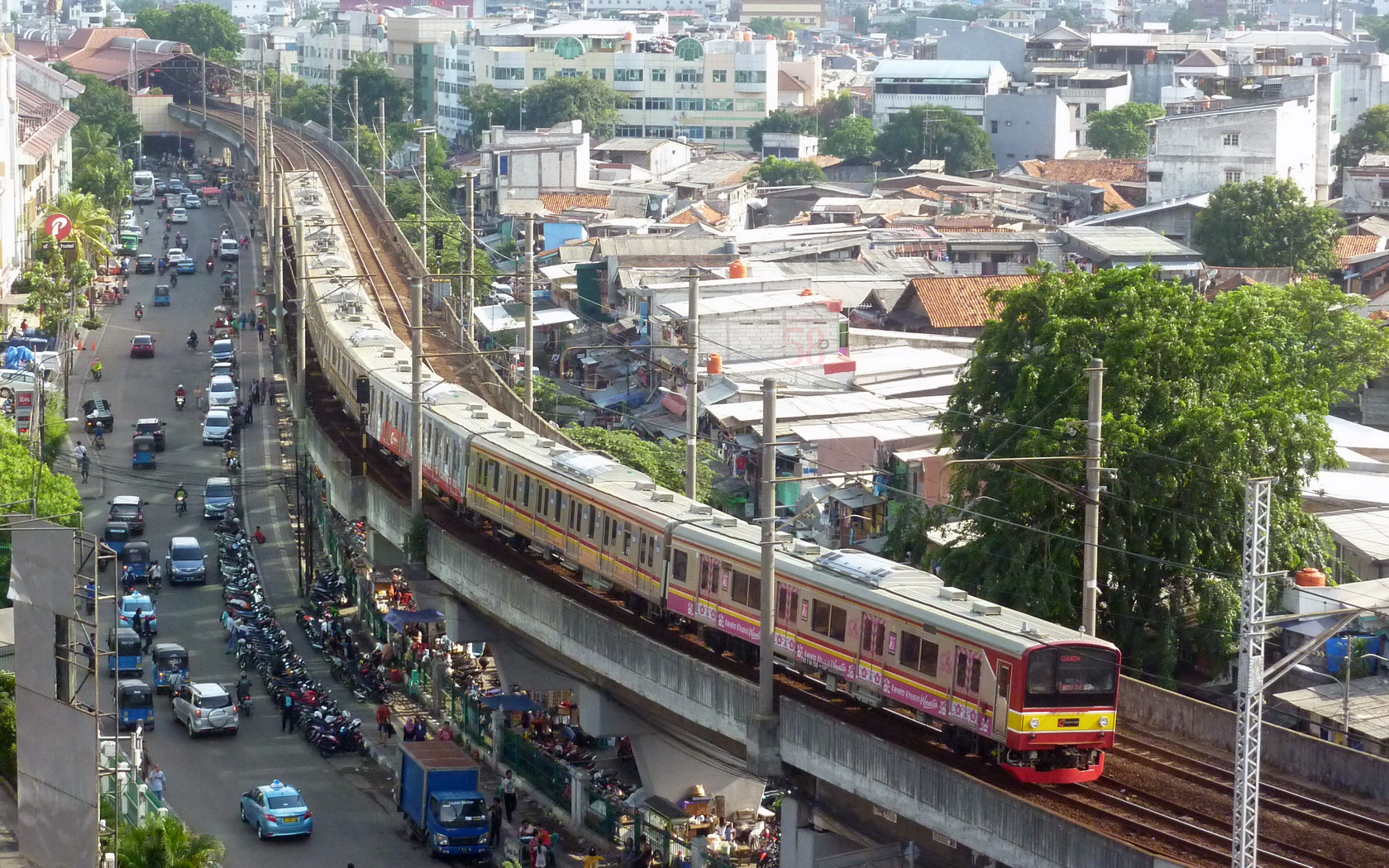 Former JR East 205 series Saikyo Line EMU set 23 takes a curve in Mangga Dua, Central Jakarta, Indonesia in December 2015